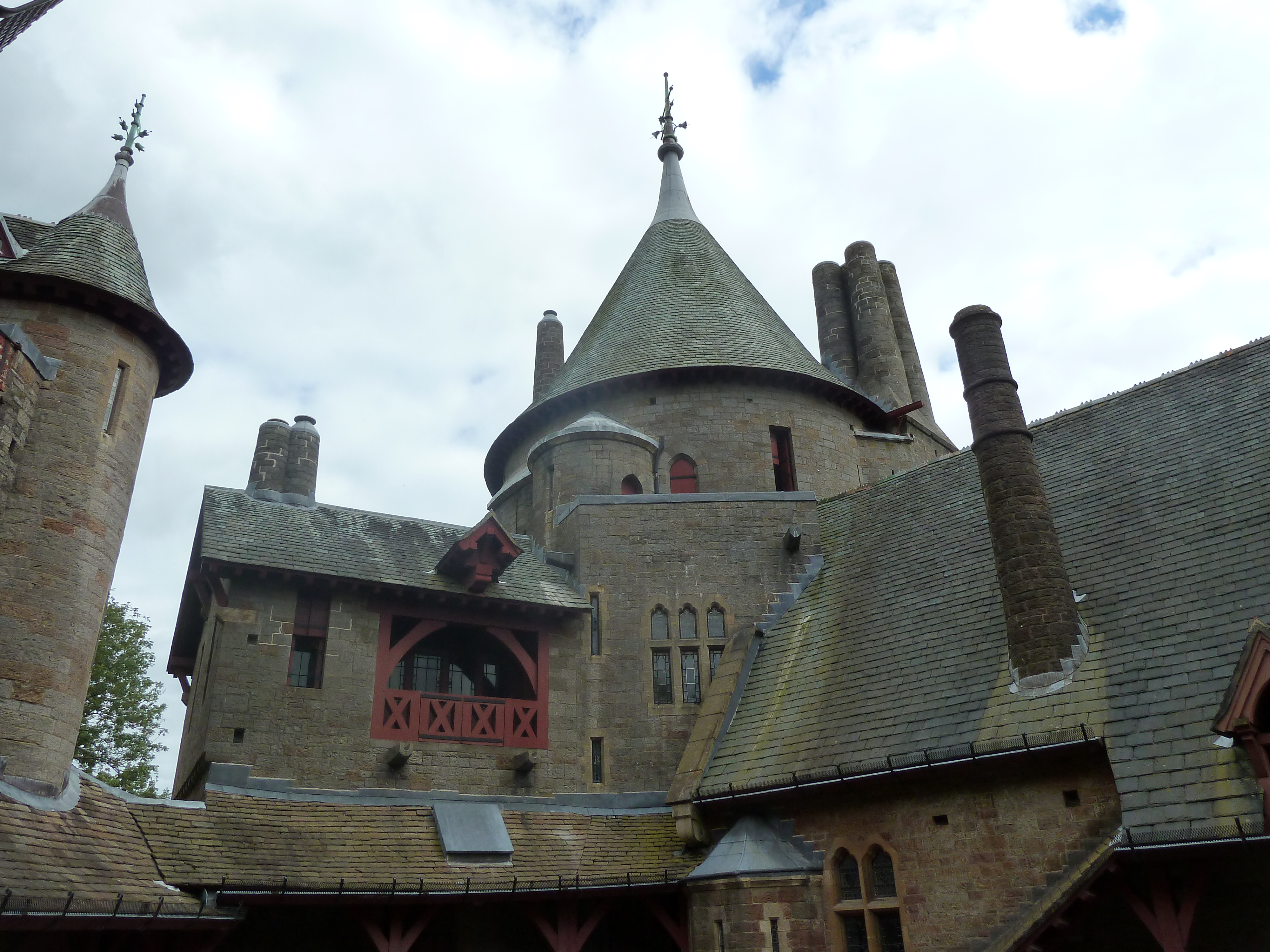 Lord Bute's bedroom and Keep Tower at Castell Coch, Wales